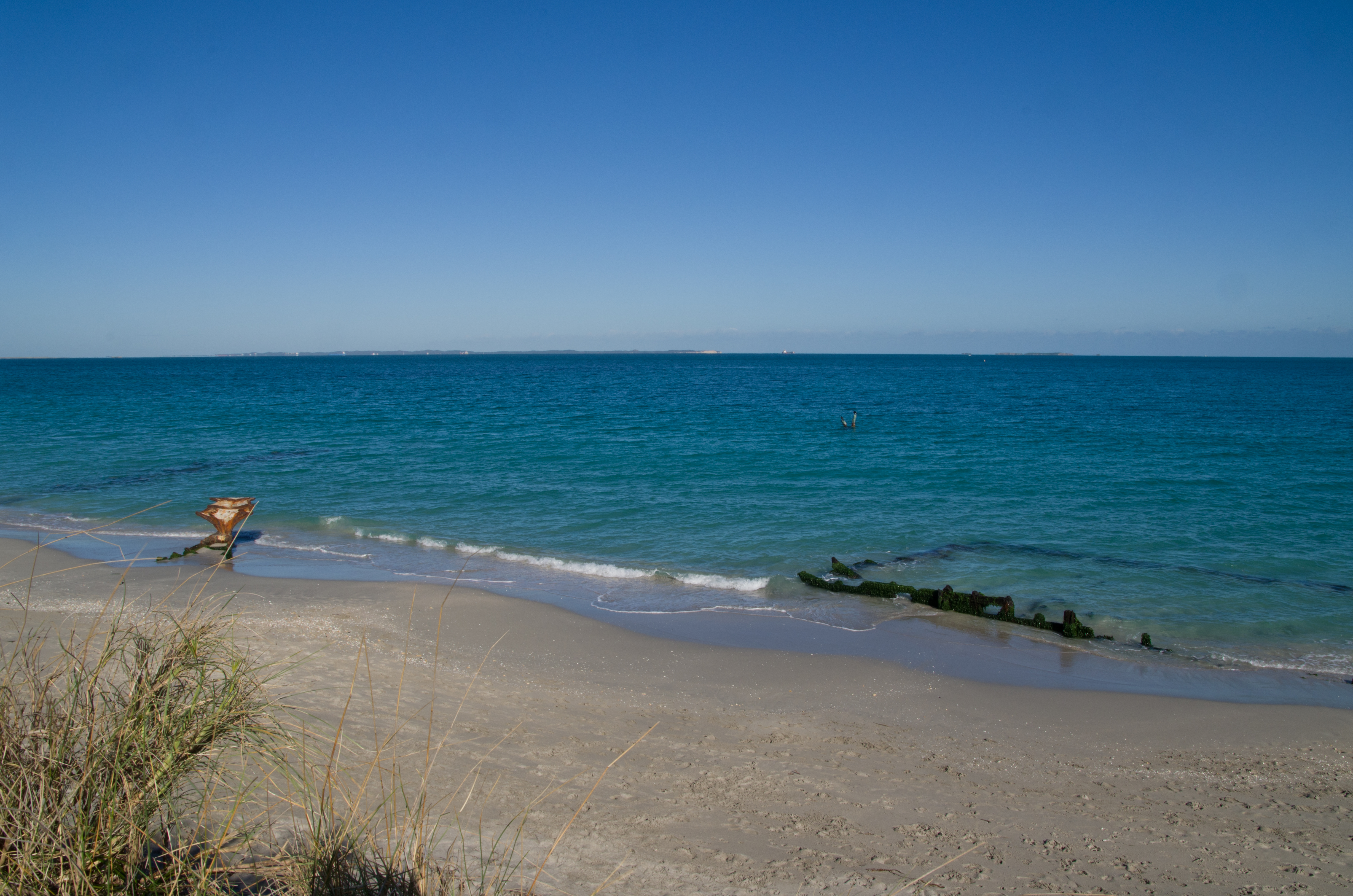 O'Connor Beach, with the SS Wyola hull, old timber barge, Robb Jetty, CY O'Connor statue